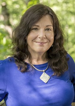 Author Photo of Rysa Walker